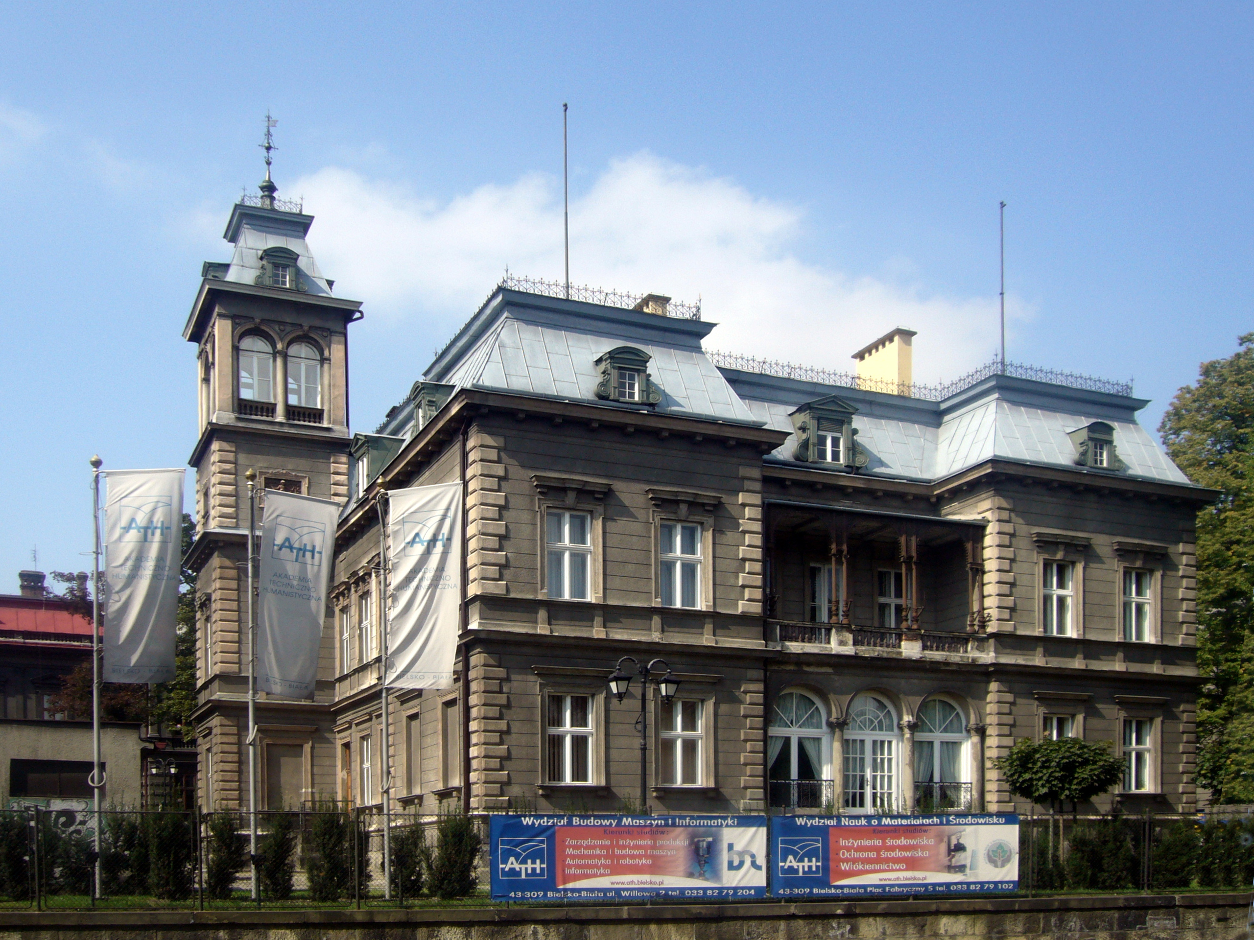 Sixt's House in Bielsko-Biała.